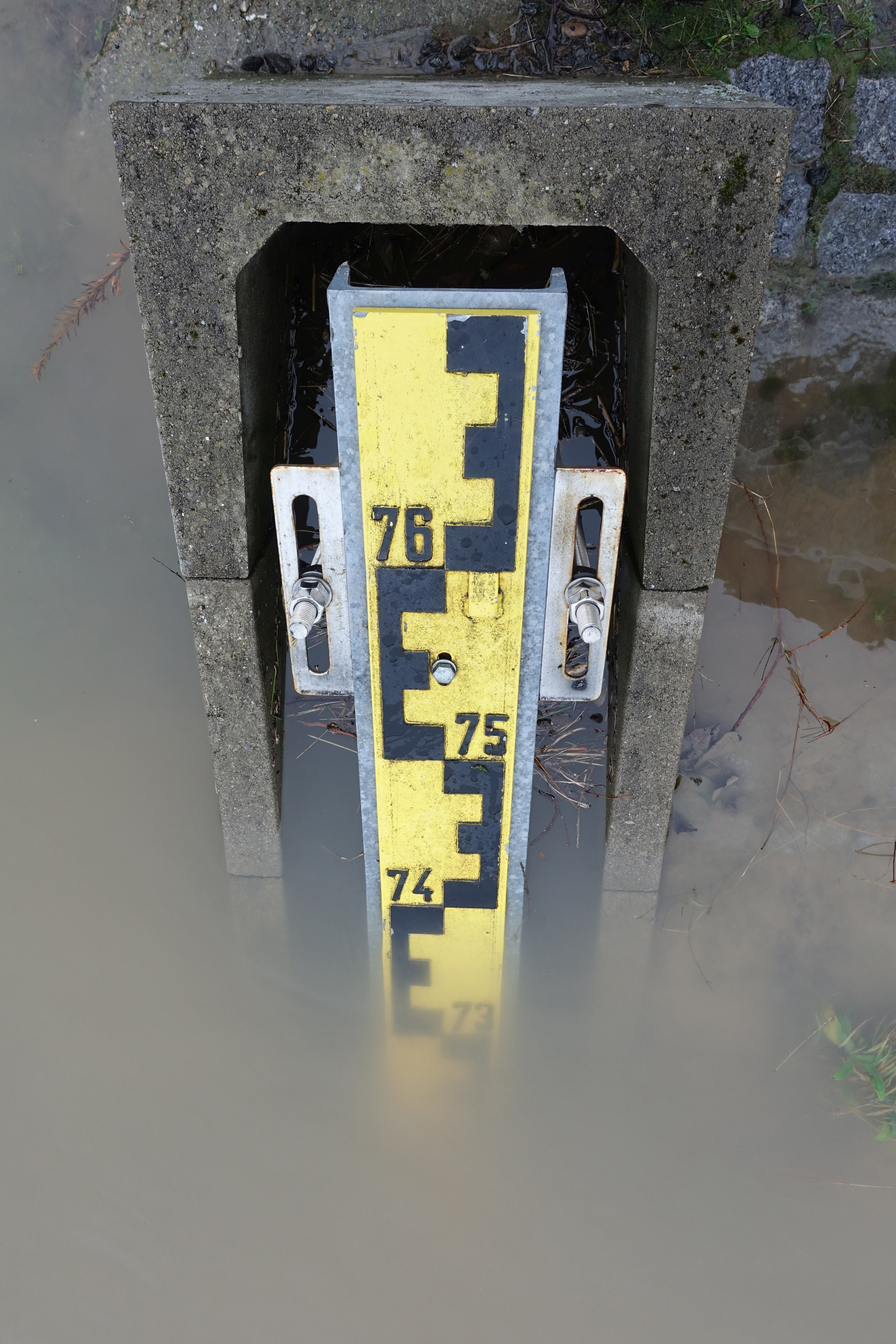 Rhine level marker Mannheim, water level at 7.40 m